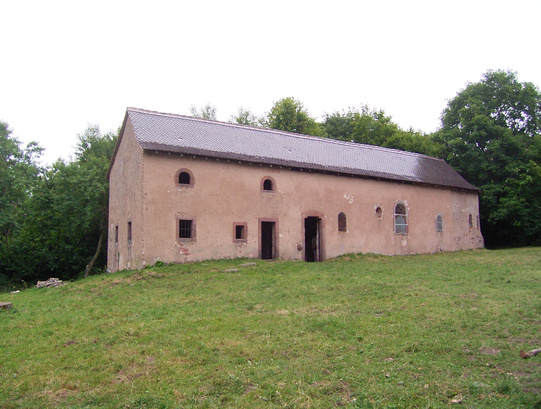 Chapel Saint Valentin in the castle of Girbaden, Bas-Rhin, France